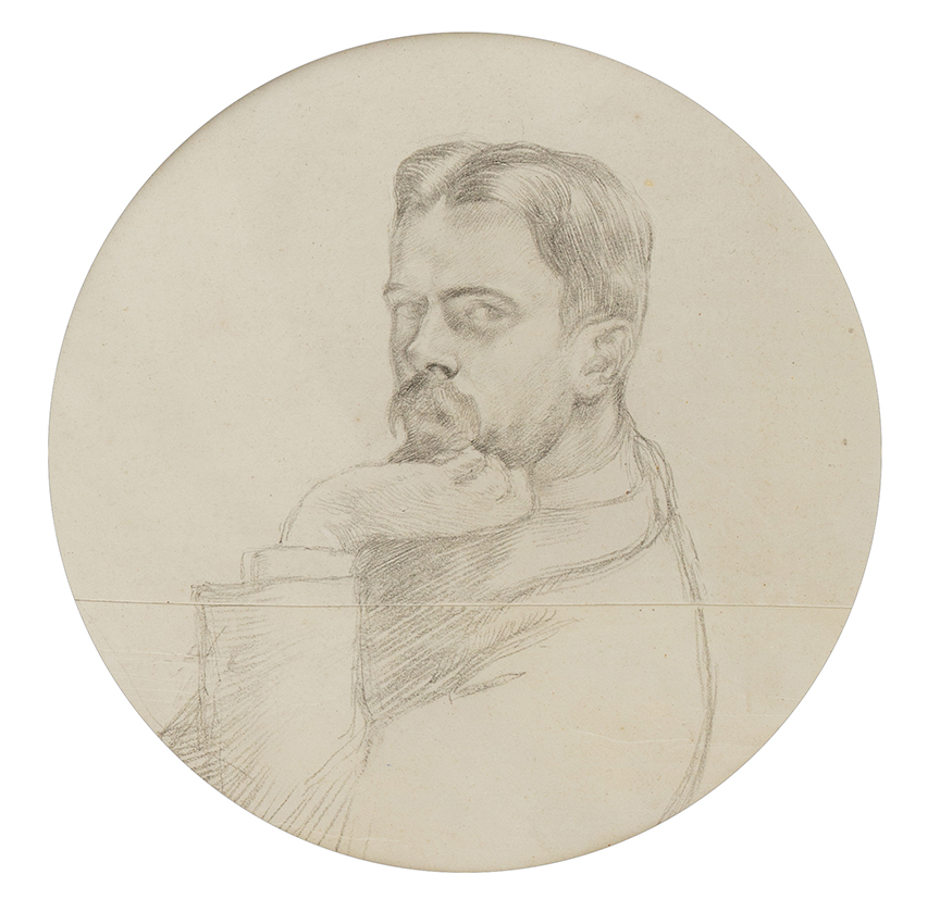 Portrait of Laurence Housman (1865-1959) Pencil, or lithographic crayon on prepared paper (joined). Provenance: By family descent to the artist’s grand-daughter and the Sale of her Rothenstein Collection, Sothebys, 26.2.2003. 6.5x6.5 inches circular. Framed: 14.25x13.25 inches. Offered for sale by Abbott & holder circa April 2019